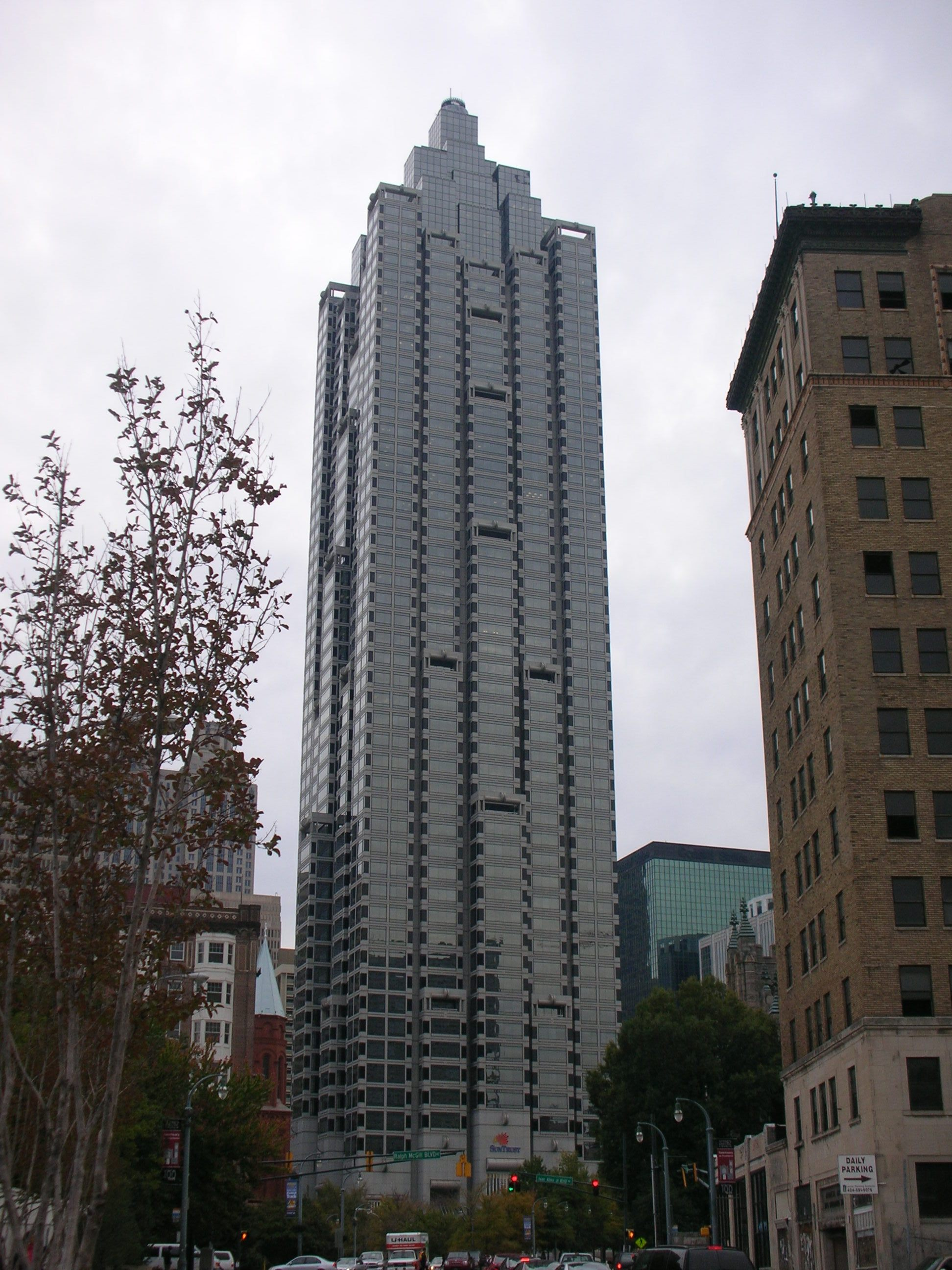 Category:Images of Atlanta, Georgia